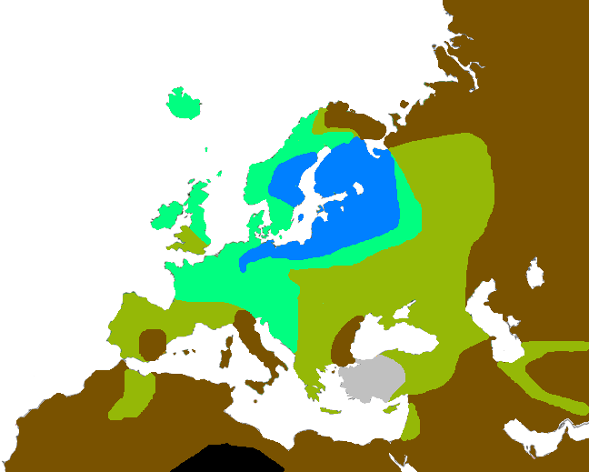 This is a recreation of anthropologist Robert Frost's study on light eye color link. The map of Frost is after Beals, Ralph L., and Harry Hoijer. 1965 An Introduction to Anthropology. Third edition.link